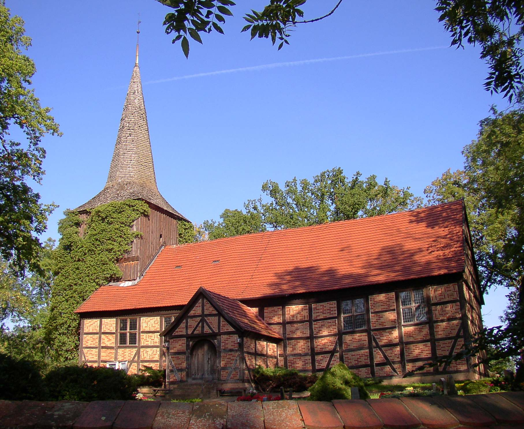 Church in Stuer in Mecklenburg-Western Pomerania, Germany